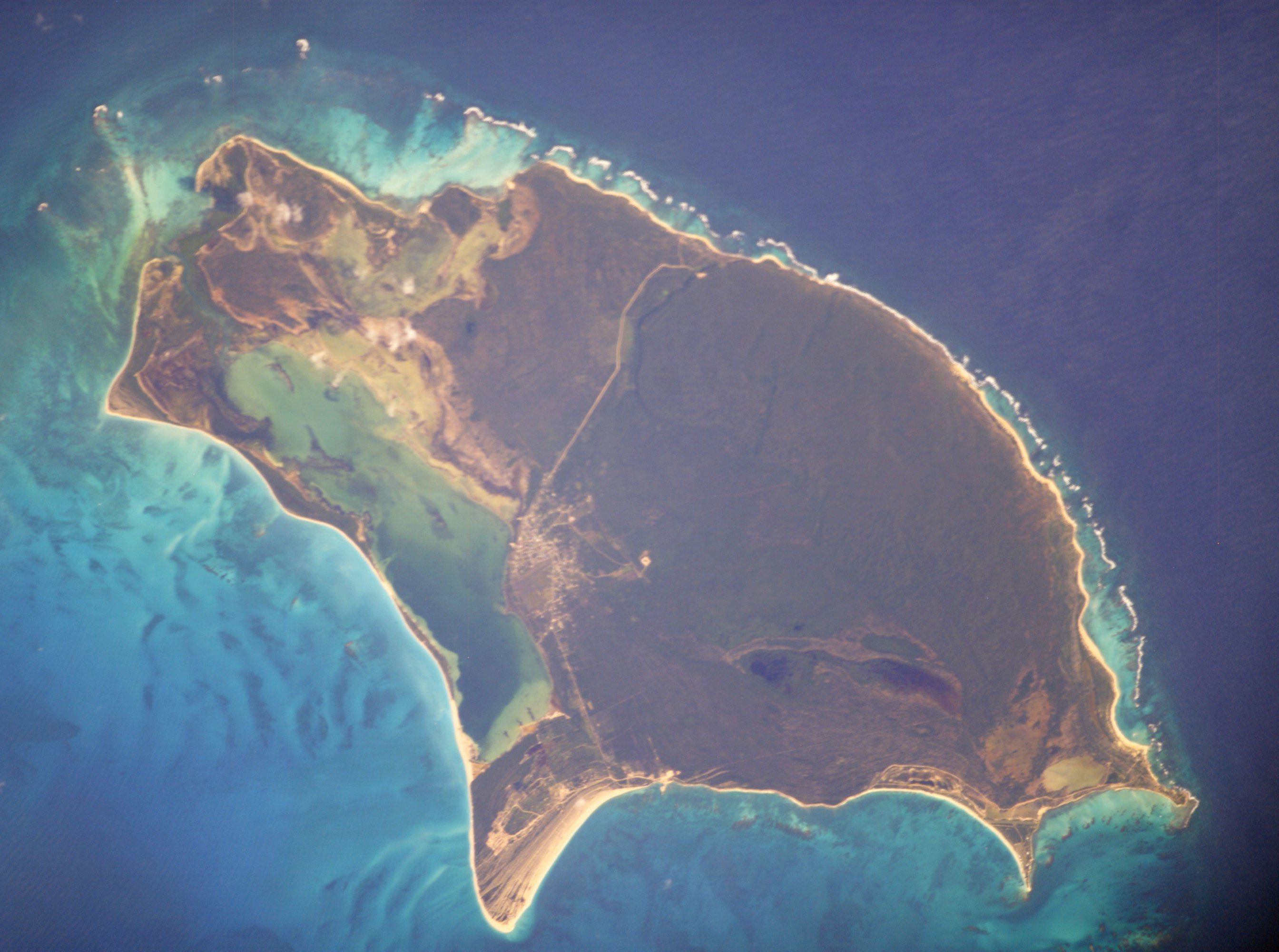 Barbuda in Lesser Antilles archipelago, seen from the International Space Station